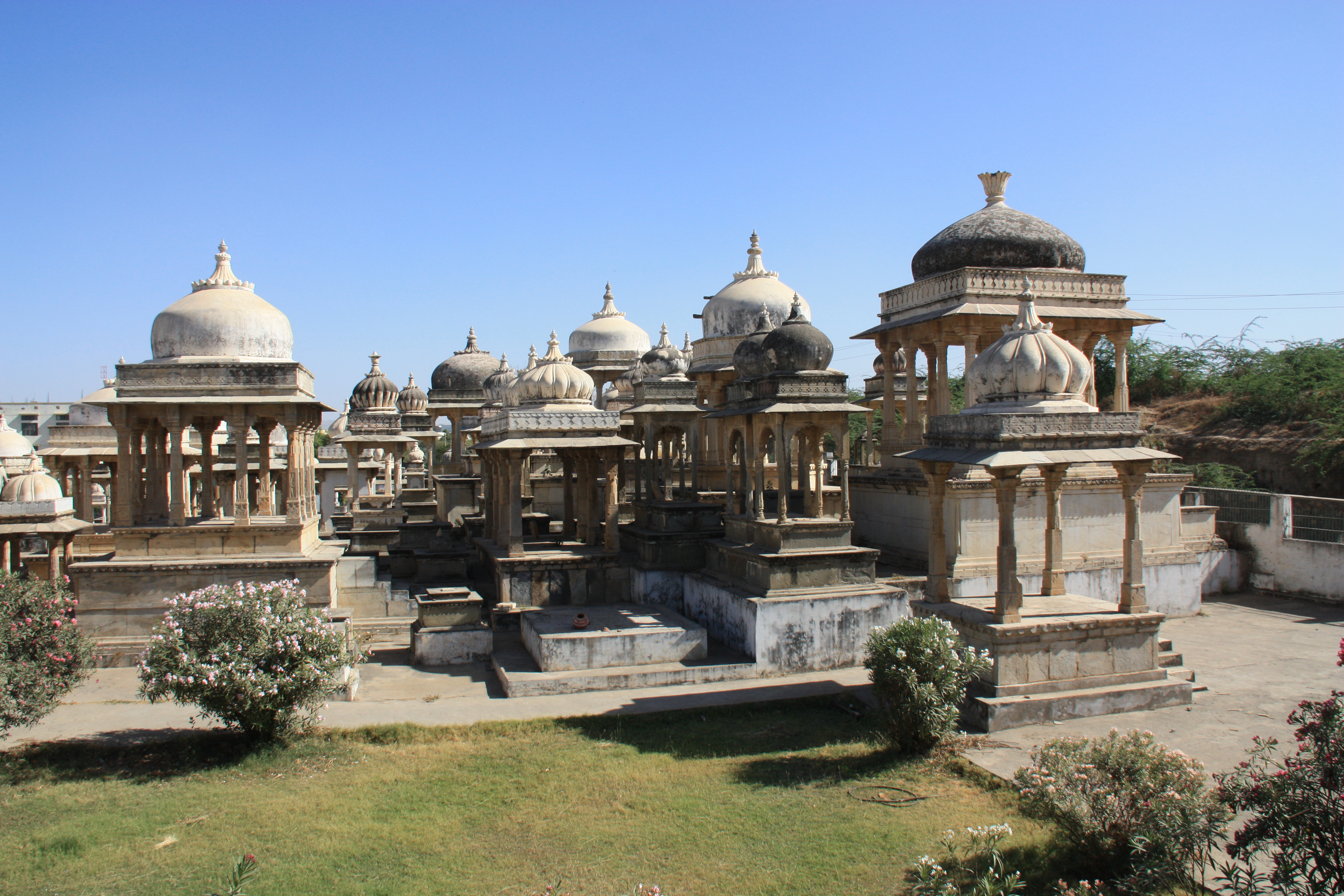 Photo of the royal cenotaphs in Ahar, near Udaipur, India